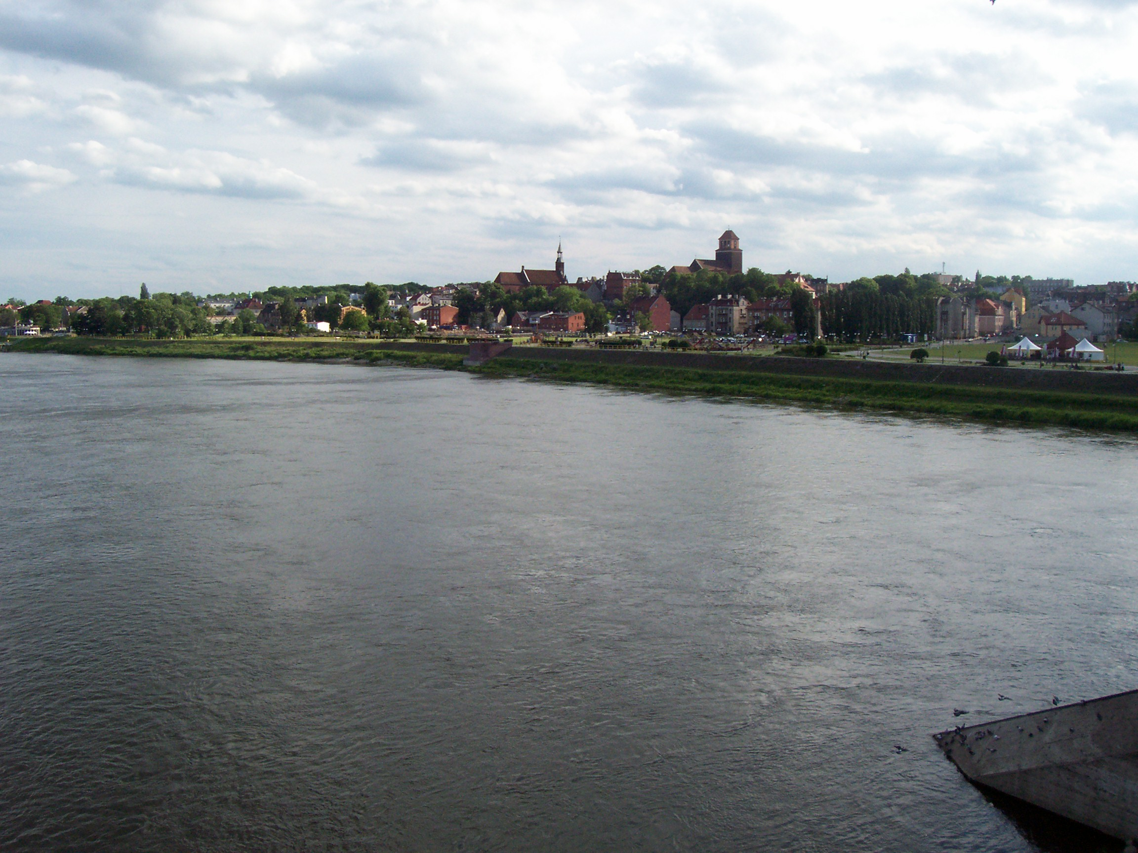 Old City in Tczew - view from the bridge